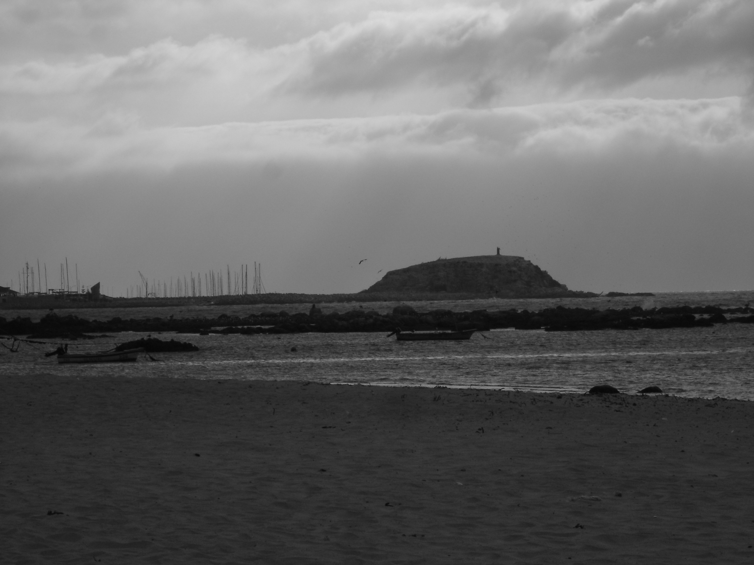 Agarrobo en invierno